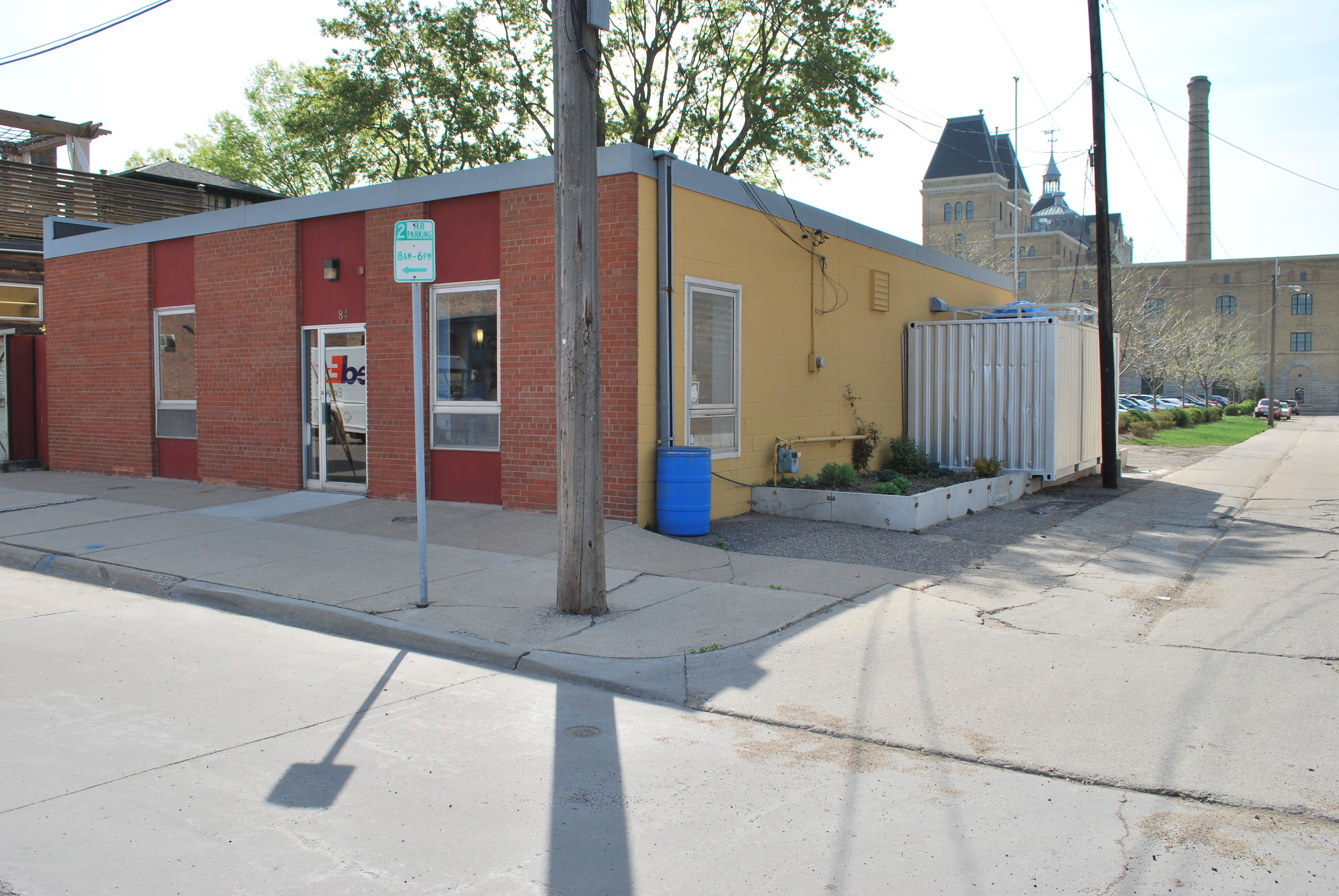 This is the studio/foundry of Nicholas Legeros in NE Minneapolis,MN